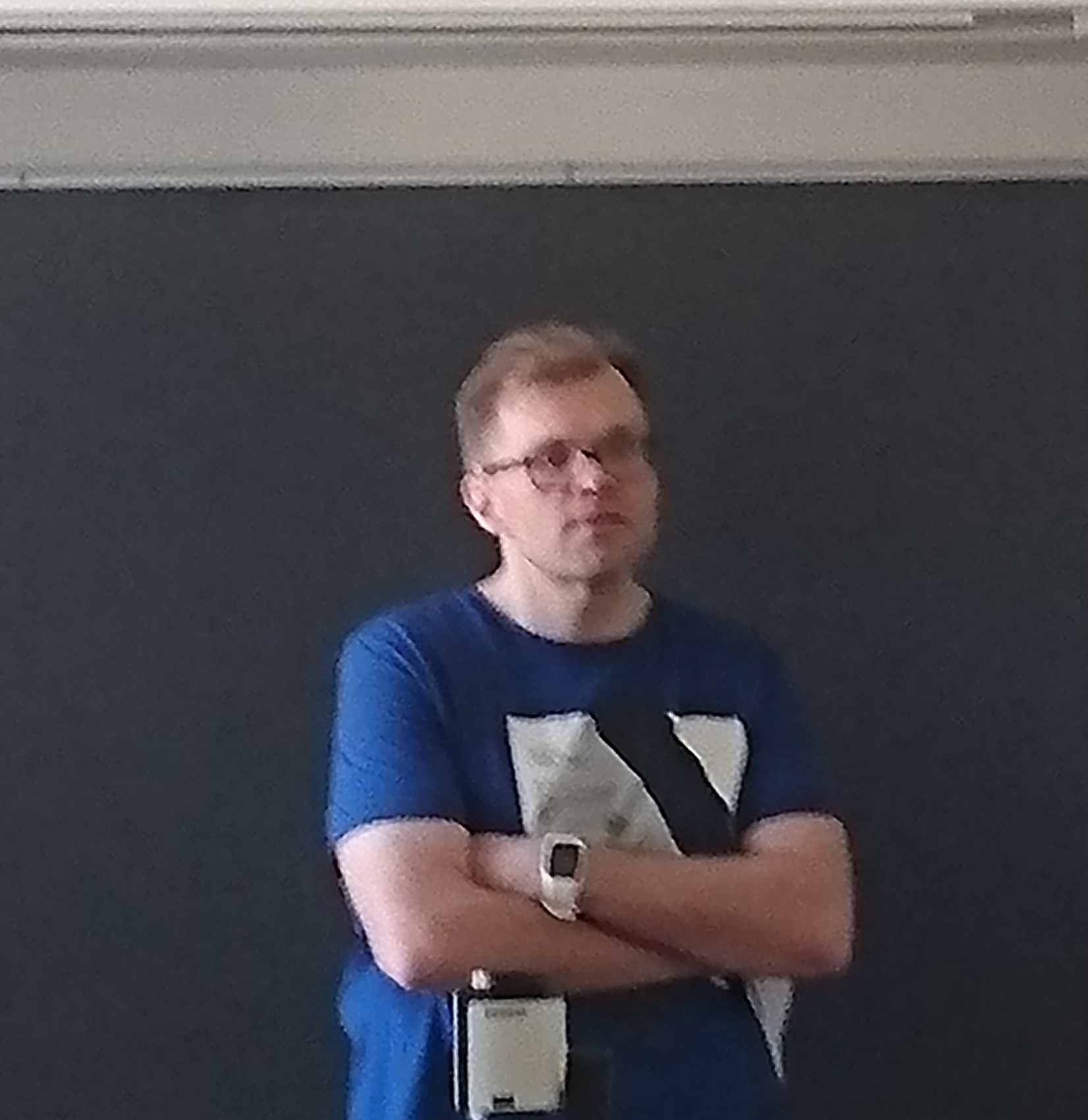 Jani Hakkarainen, as per the filename